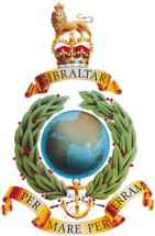 Cap badge of the Royal Marines Image of UK Military Cap Badge, originally Crown Copyright, Images that are pre 1953 are now Public domain.